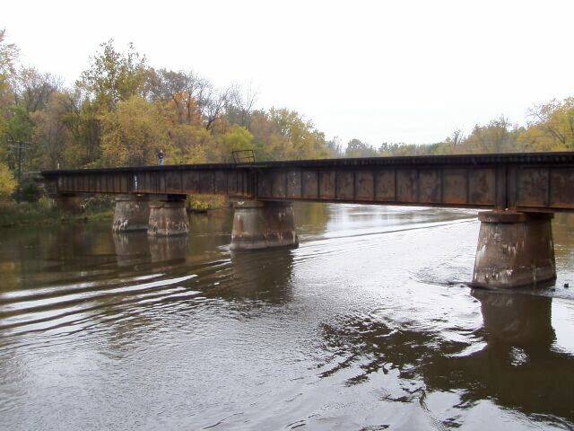 C&O Railroad over the Kalamazoo River. Note: the two piers closest together. The 2nd pier was a center pivot to allow the bridge to open and boats to pass.